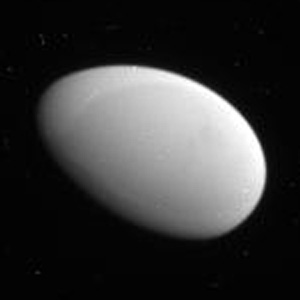 N00189072.jpg was taken on May 20, 2012 and received on Earth May 21, 2012. The camera was pointing toward METHONE, and the image was taken using the CL1 and CL2 filters. This image has not been validated or calibrated. A validated/calibrated image will be archived with the NASA Planetary Data System in 2013. Image rotated so that north is up. Original image had a pixel scale of 26.72 meters per pixel, but this has been enlarged by 2x to improve feature visibility.